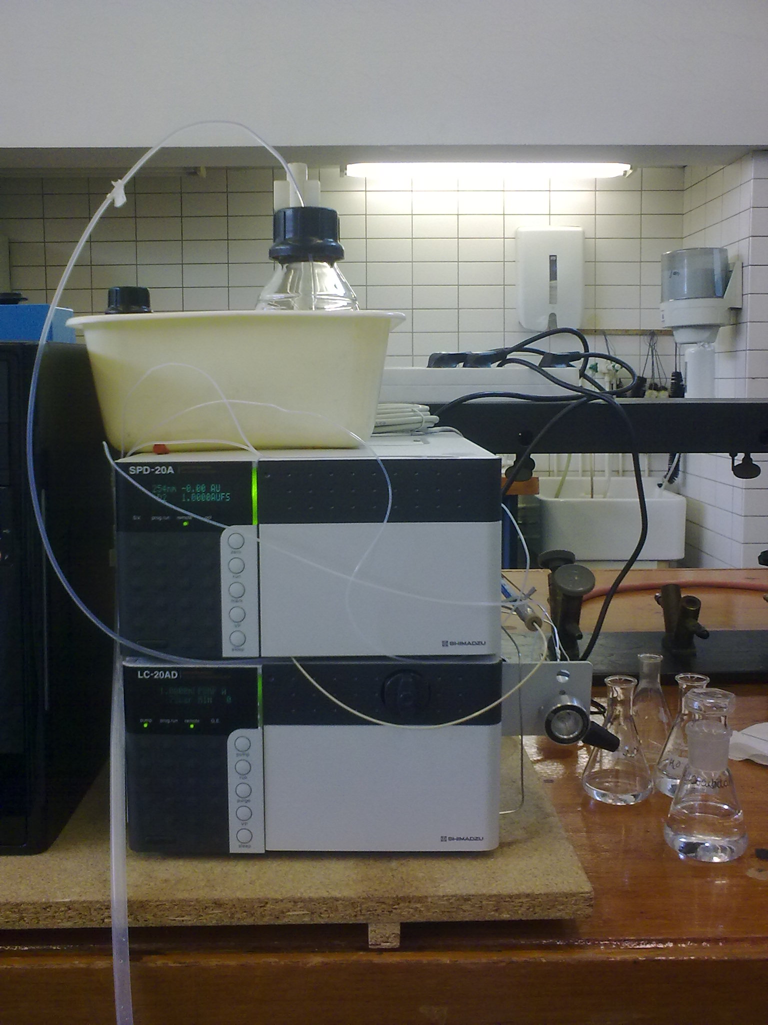 A high-performance liquid chromatography apparatus.